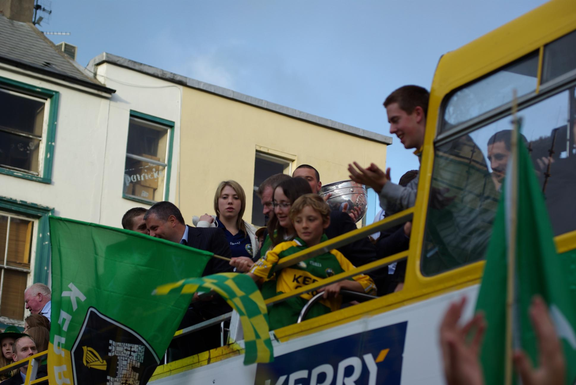 Victorious team of 2007 gaellic football cup during the parade at Tralee